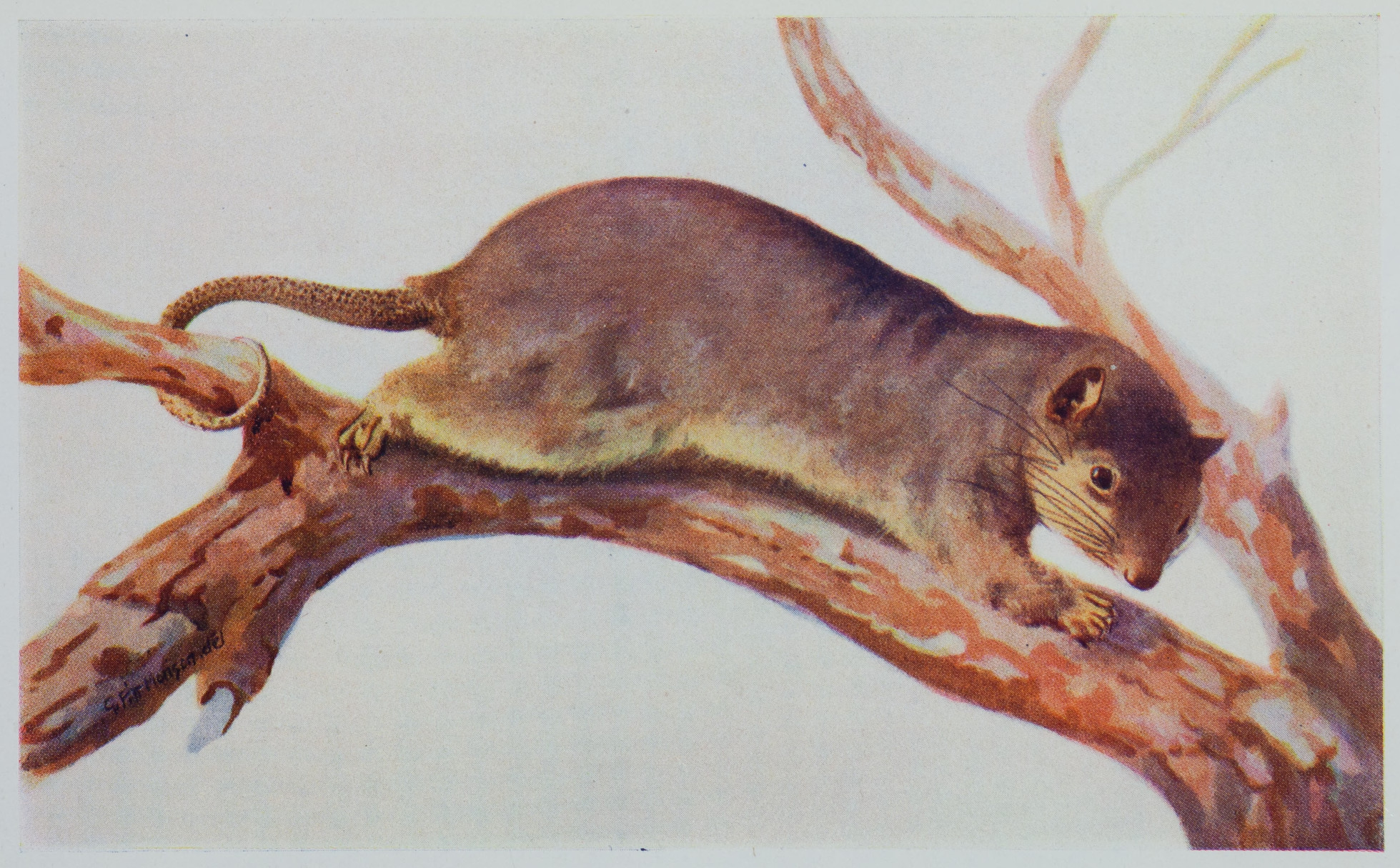 A reproduction of a painting accompanying the description of a new species Australian species. The image has been cropped, removing the pagination and caption.